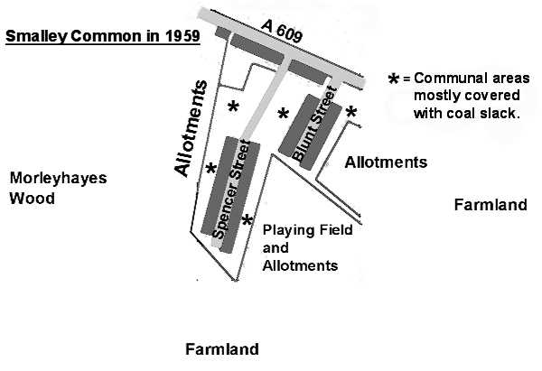 Plan of Smalley Common in 1959